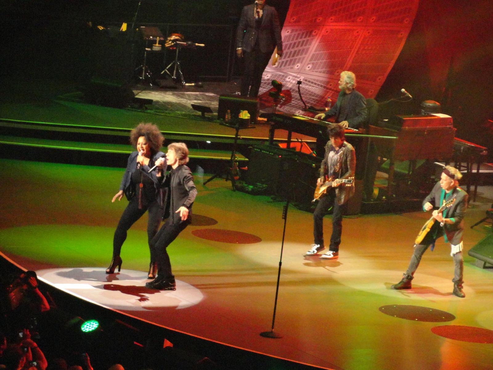 The Rolling Stones performing in Boston, Massachusets featuring vocalist Lisa Fischer and Mick Jagger